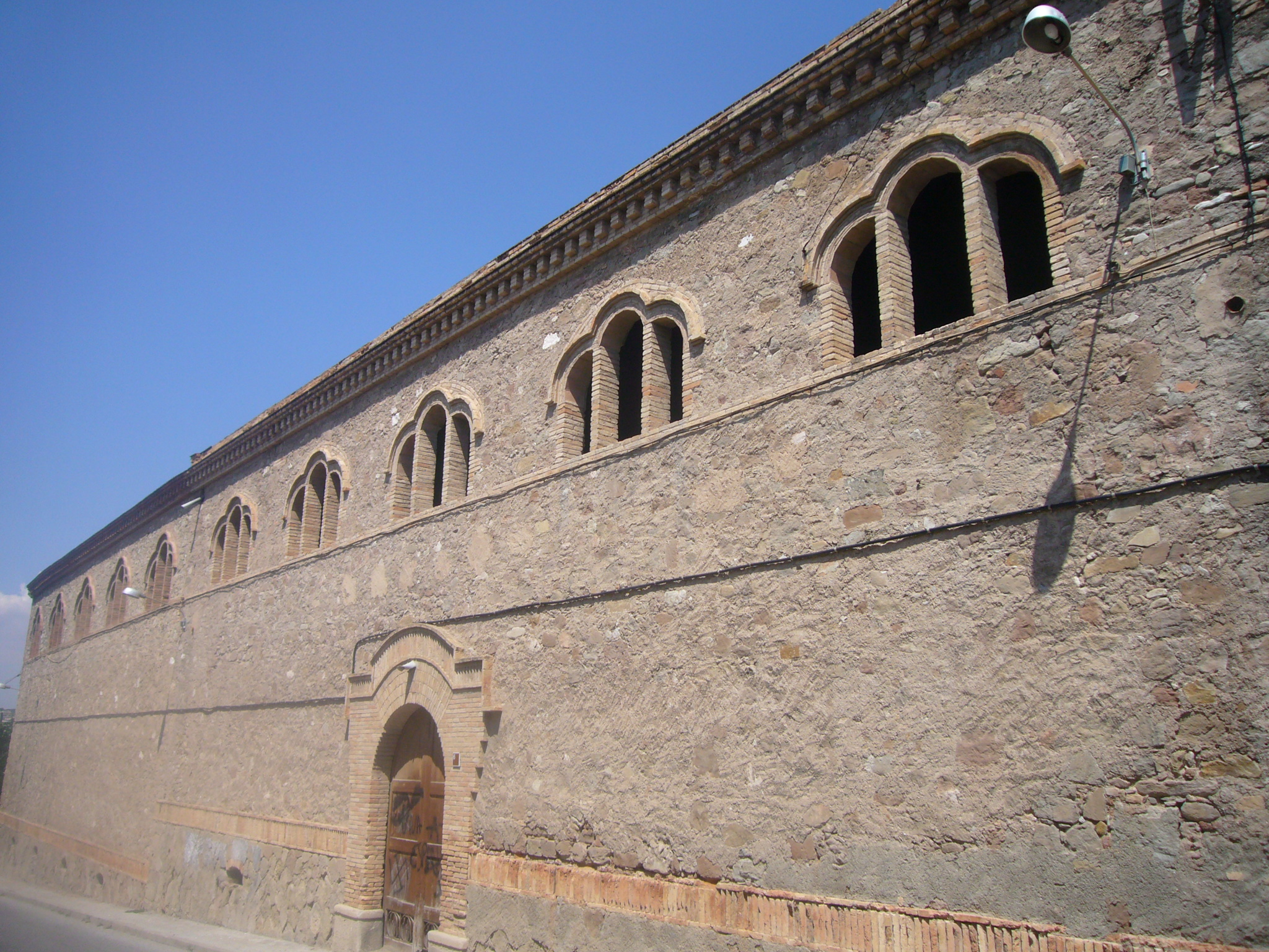 Igualada cellar. 1921. Architect: Cesar Martinell